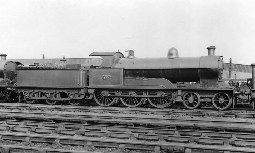 Photograph of LNWR engine No.165 'City of Lichfield'